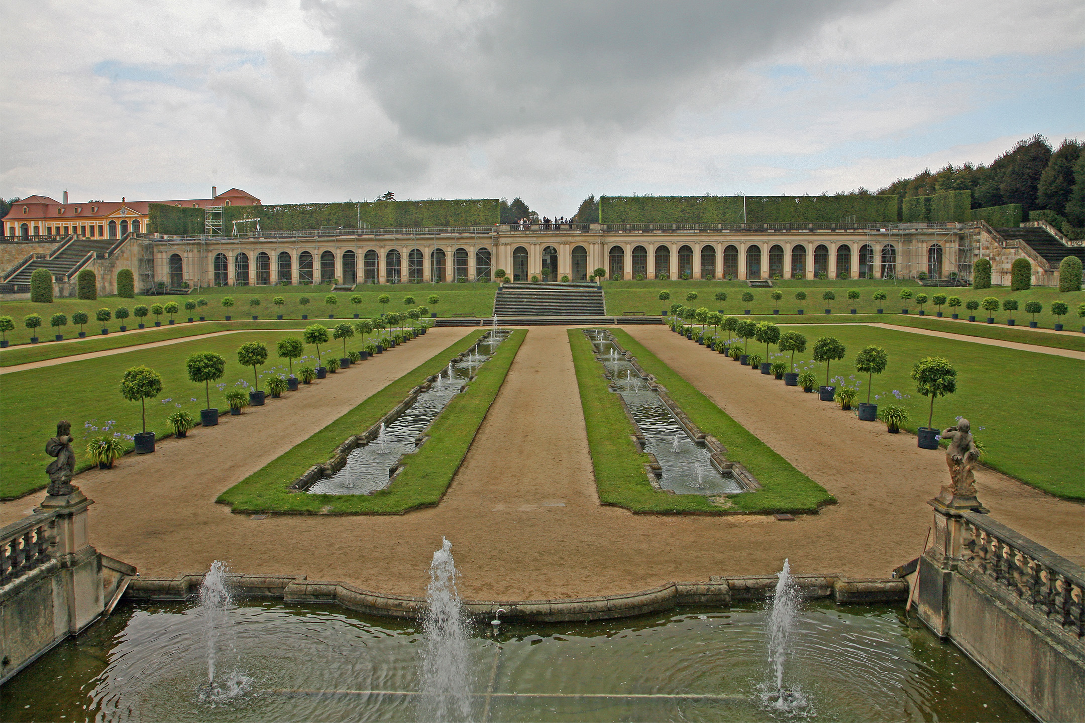 Großsedlitz: The baroque garden was built from 1719 to 1723 by an imperial count in Saxony, Germany, as an estate with orangery. The model of the approximately 18 hectare garden was the French horticulture.